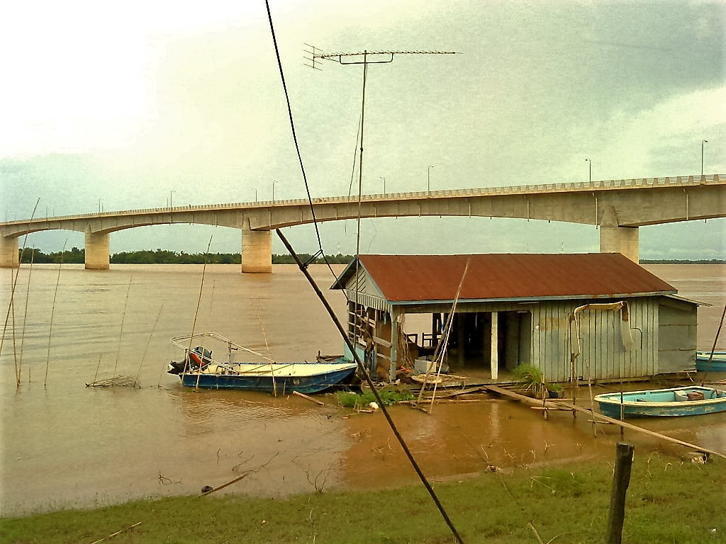 Outboard port kompong cham